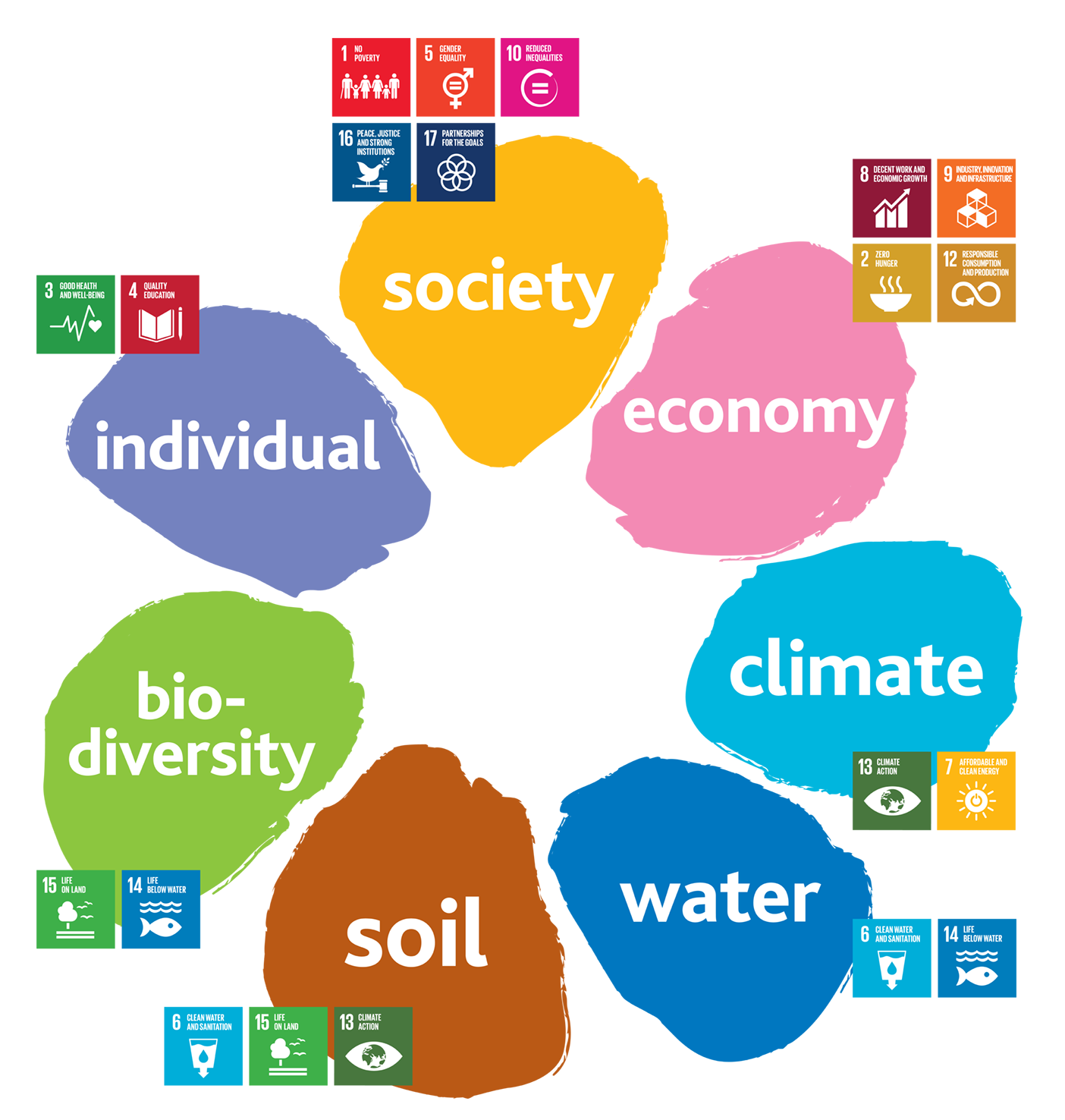 The Sustainability Flower, a model for ecological and social sustainability, linked to the SDG's. This model was developed and is used by companies including Eosta (Netherlands), Soil & More Impacts (Germany) and SEKEM (Egypt).